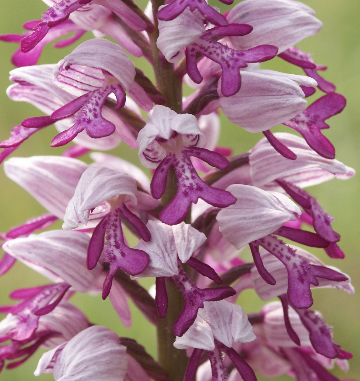 Description: Orchis militaris Date: 4. May 2003